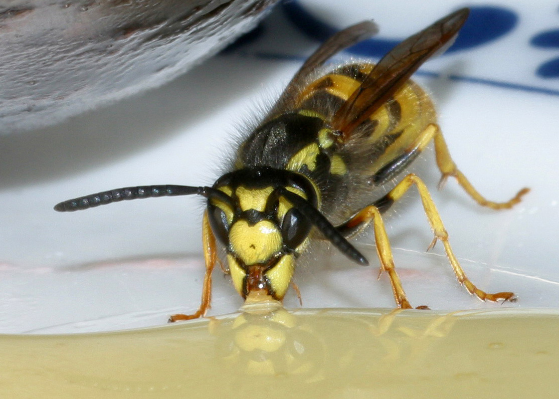 Frontal view of a German wasp (Vespula germanica) drinking syrup.